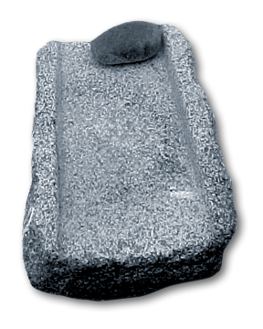 Appears to be a modification of an image found at [1]. —Bkell (talk) 04:16, 8 June 2006 (UTC) altered by submitter